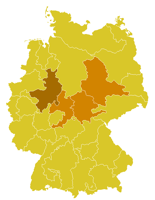 church province Paderborn